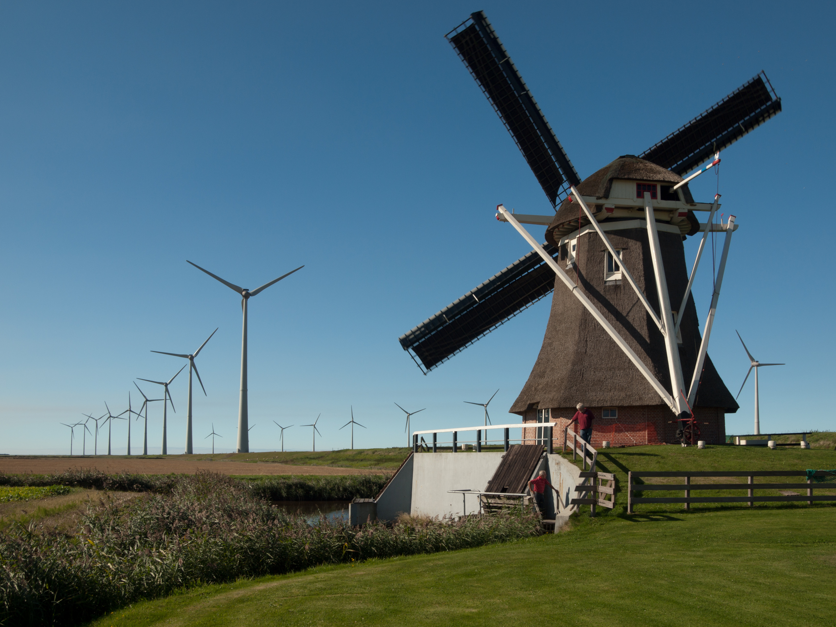 Goliath mill, Eemshaven, province Groningen, Netherlands.